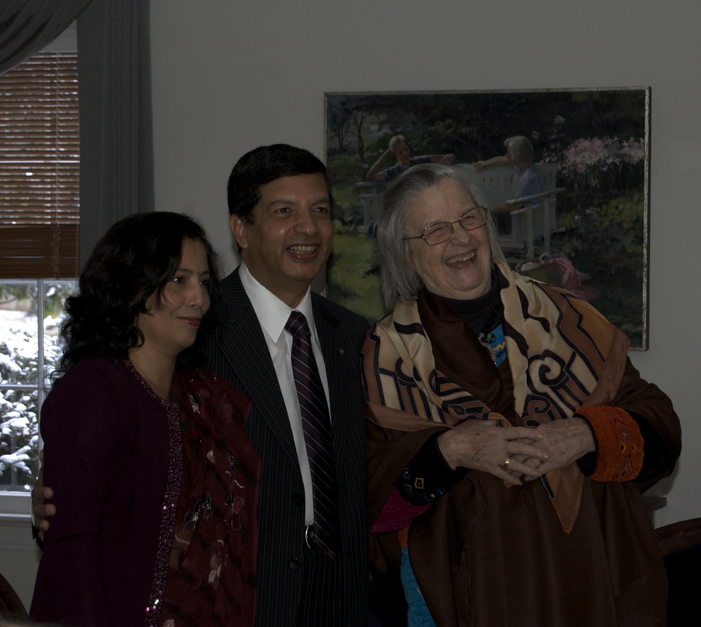 A visit to Ostrom by Shankar Sharma